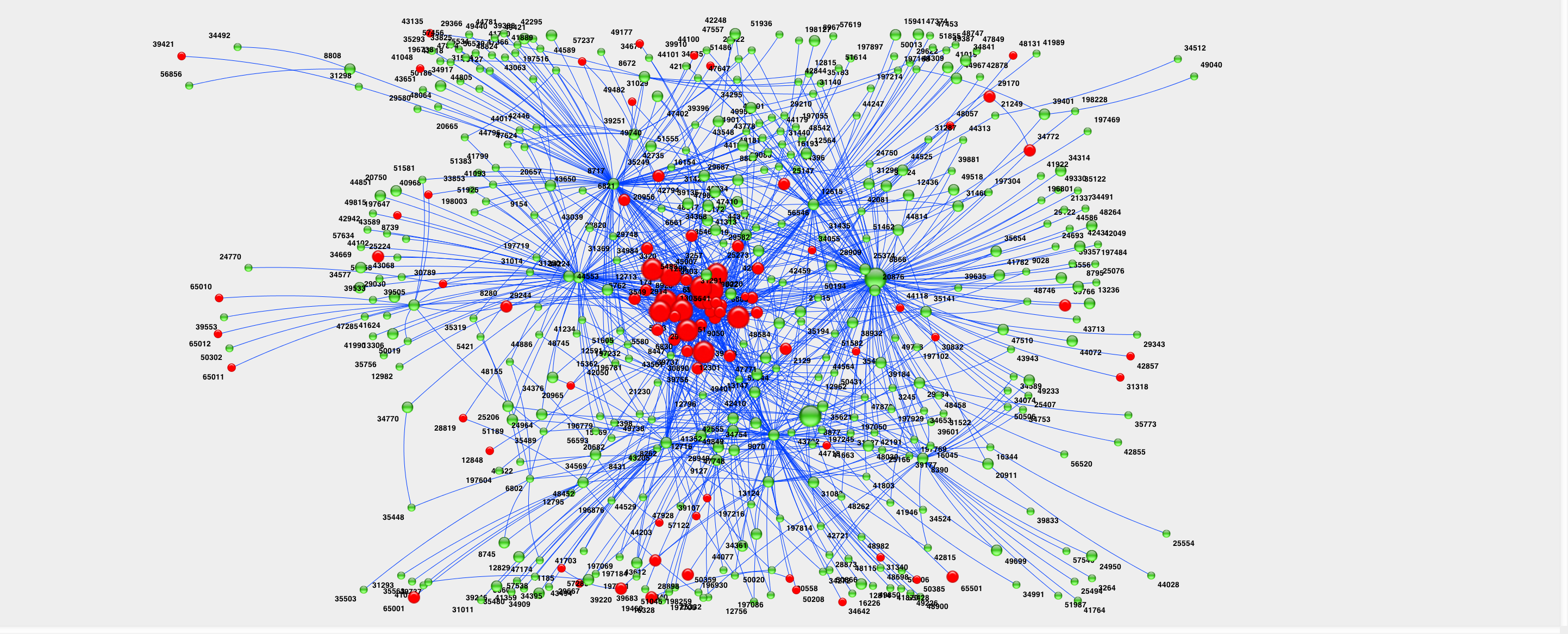 Bulgarian Internet in 2011